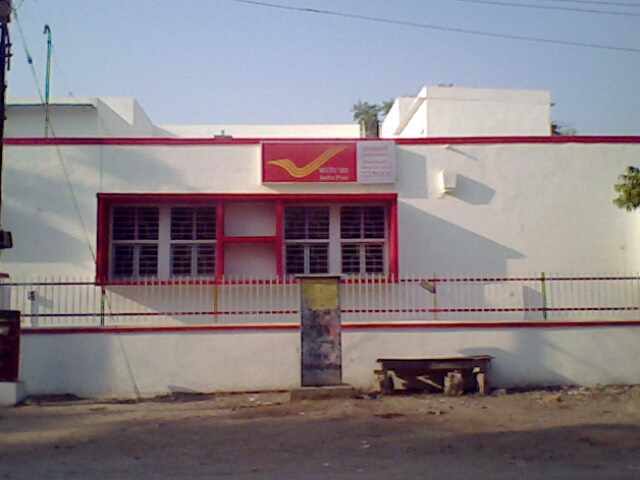 This is picture of Barabanki Head Post Office.